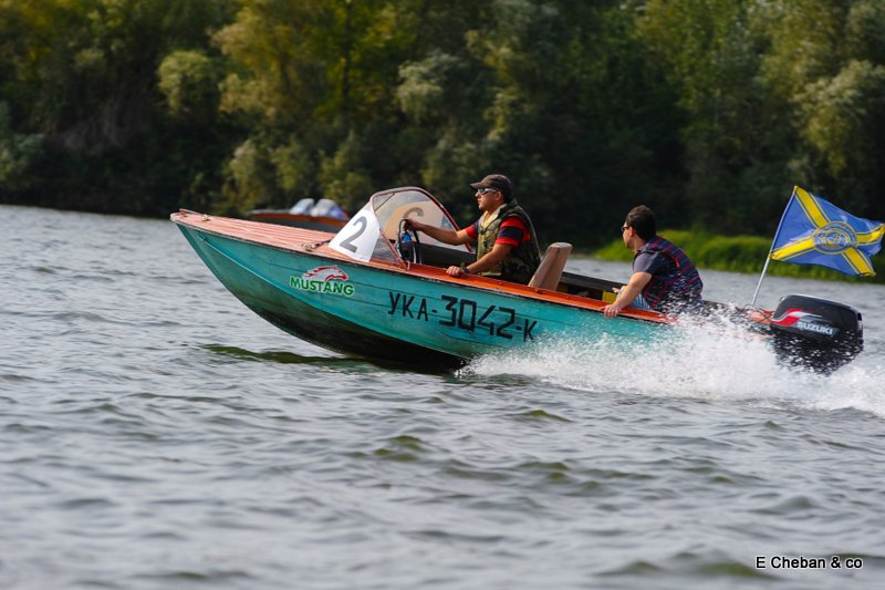 Човнярі на відпочинку